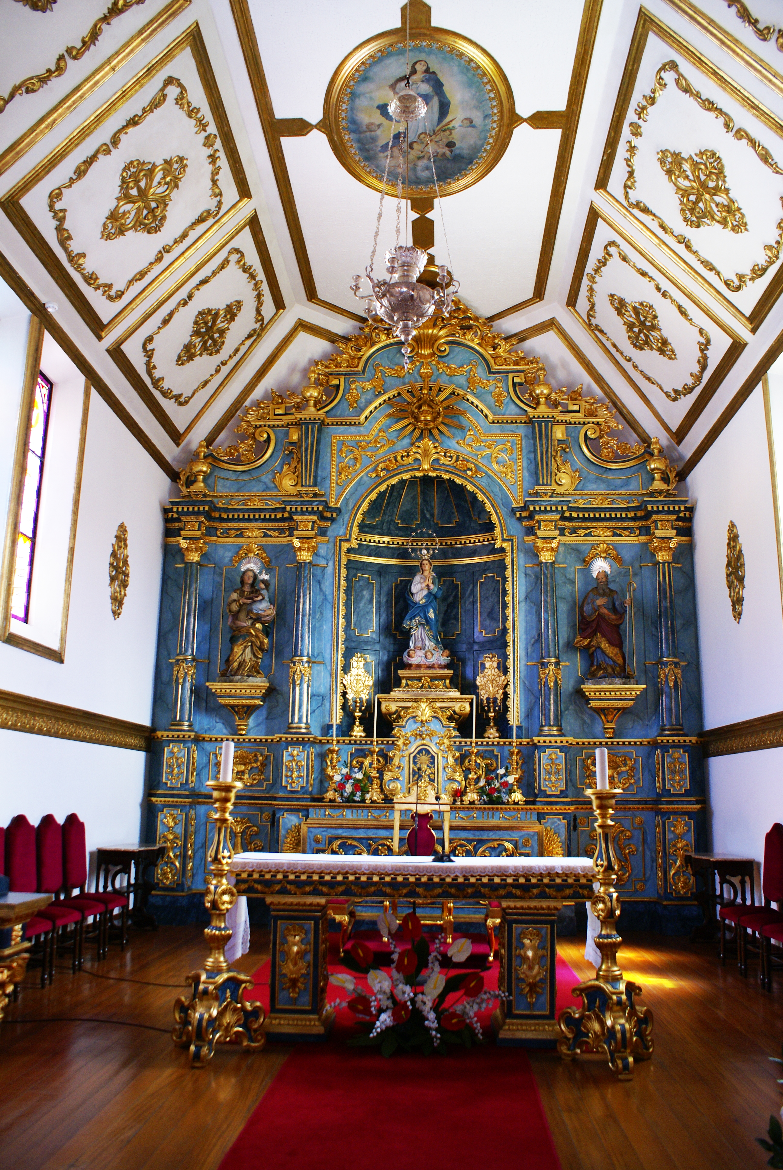 Igreja de Nossa Senhora da Conceição, altar mor, concelho da Horta, ilha do Faial, Açores, Portugal